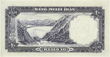 10-RIAL-REV-TAMAMROKH-KE